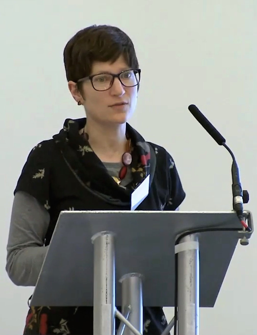 Valuing Infrastructure Conference 2017 Day 2, 27th April 2017 Parallel Session IV - Sustainability, Cultural and Social Value. Chair: Tom Theis, University of Illinois at Chicago Living Well Within Limits (LiLi) - Julia Steinberger, University of Leeds